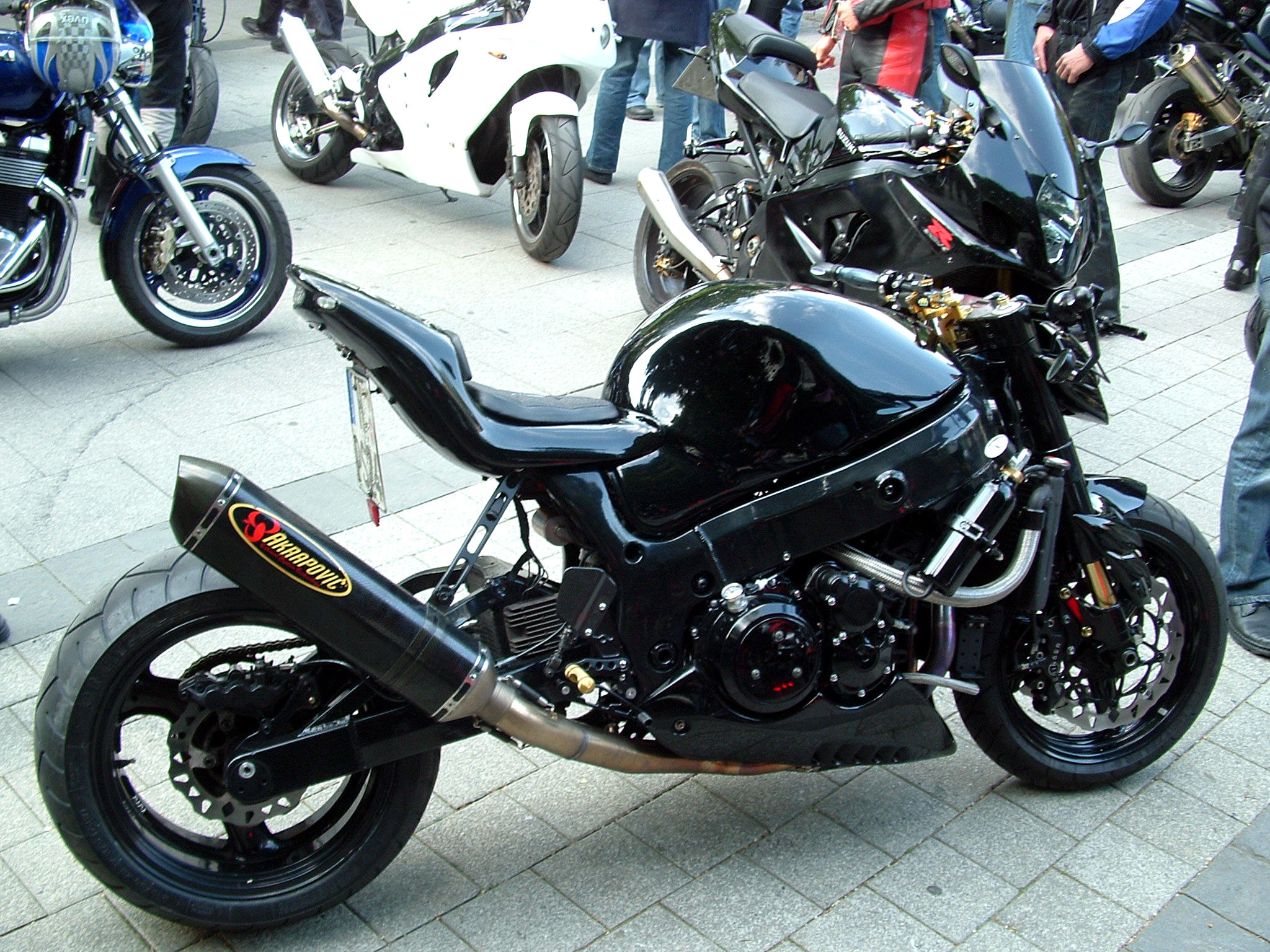 Mild May weather in Hanover. There all drivers come to the meeting place.